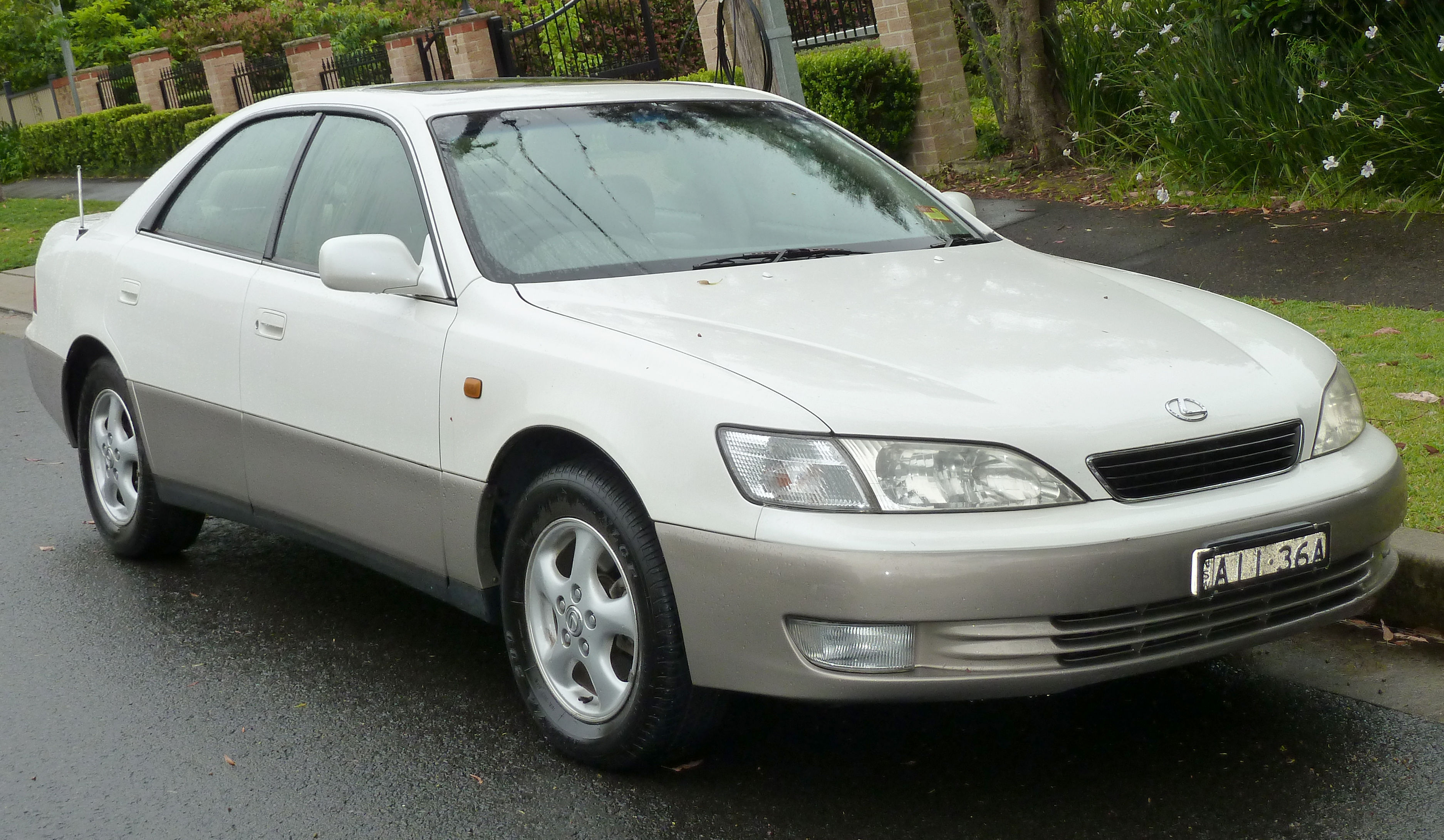 1999 Lexus ES 300 (MCV20R) LXS sedan. Photographed in Roseville, New South Wales, Australia.